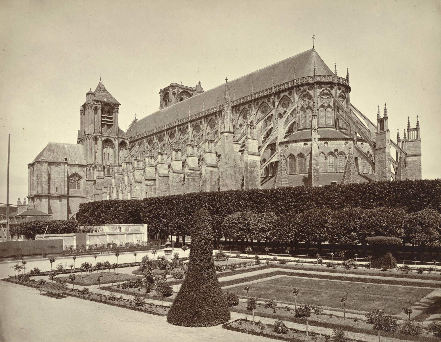 Collection: A. D. White Architectural Photographs, Cornell University Library Accession Number: 15/5/3090.01310 Title: Bourges Cathedral, Perspective View Building Date: 1190-1275 Photograph date: ca. 1865-ca. 1886 Location: Europe: France; Bourges Materials: albumen print Image: 8.6614 x 11.1811 in.; 22 x 28.4 cm Style: High Gothic Provenance: Gift of Andrew Dickson White Persistent URI: There are no known copyright restrictions on this image. The digital file is owned by the Cornell University Library which is making it freely available with the request that, when possible, the Library be credited as its source. We had some help with the geocoding from